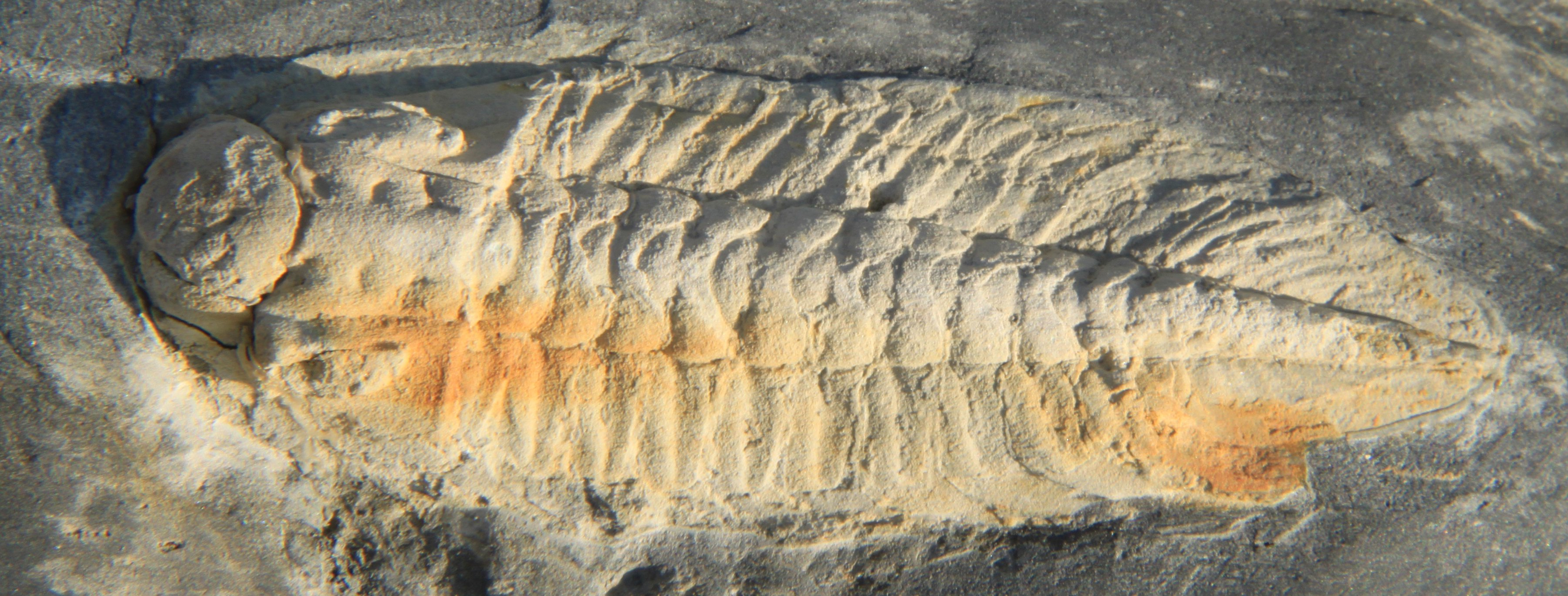 A Zeliszkella torrubiae trilobite, Order Phacopida, Family Dalmanitidae, 65mm along its axis, dorso-lateral view, found at the Valongo, Portugal, from the Upper Ordovician